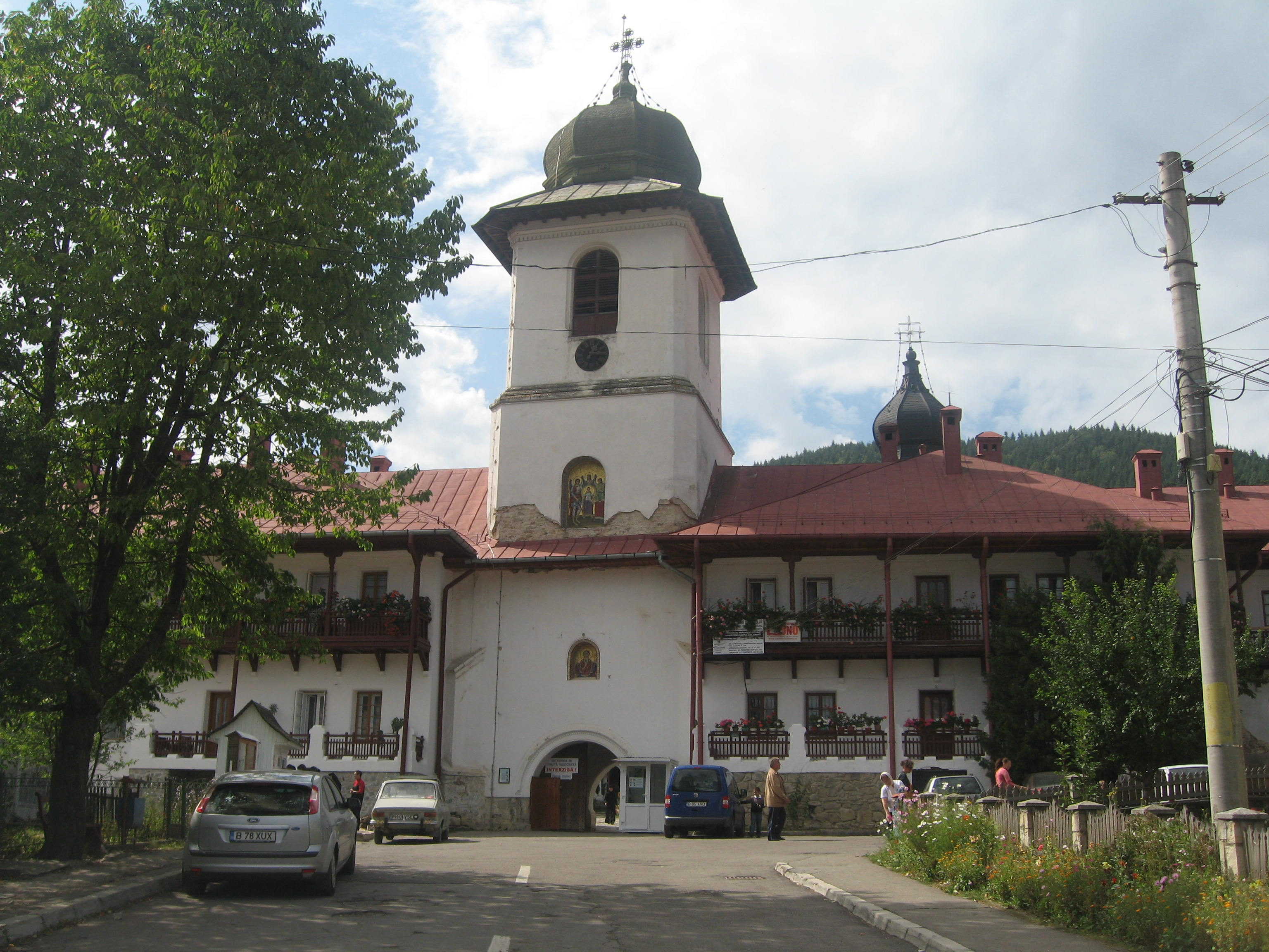 Mănăstirea Agapia 06